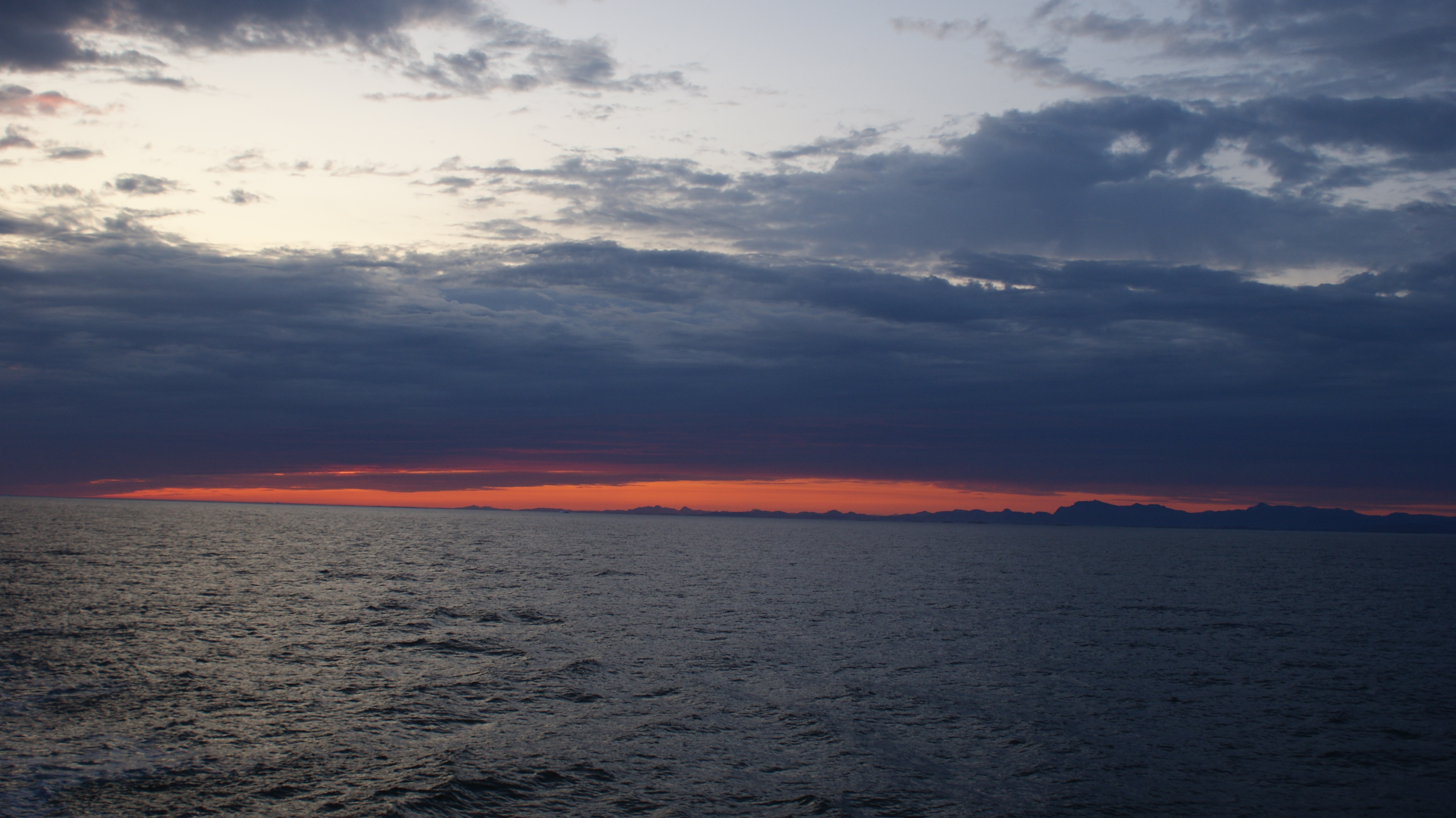 Past sunset at Labrador Sea, off the coast of Paamiut, Greenland. Photographed from the top deck of Sarfaq Ittuk of Arctic Umiaq Line.